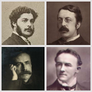 Composite image from the following four public domain pictures: Arthur Sullivan by Sarony & Co, 1864; Edward Elgar by Charles Frederick Grindrod published 1903; Charles Villiers Stanford by W. & D. Downey, published by Cassell & Company, Ltd in 1894; Edward German from a photographic postcard, circa 1890.